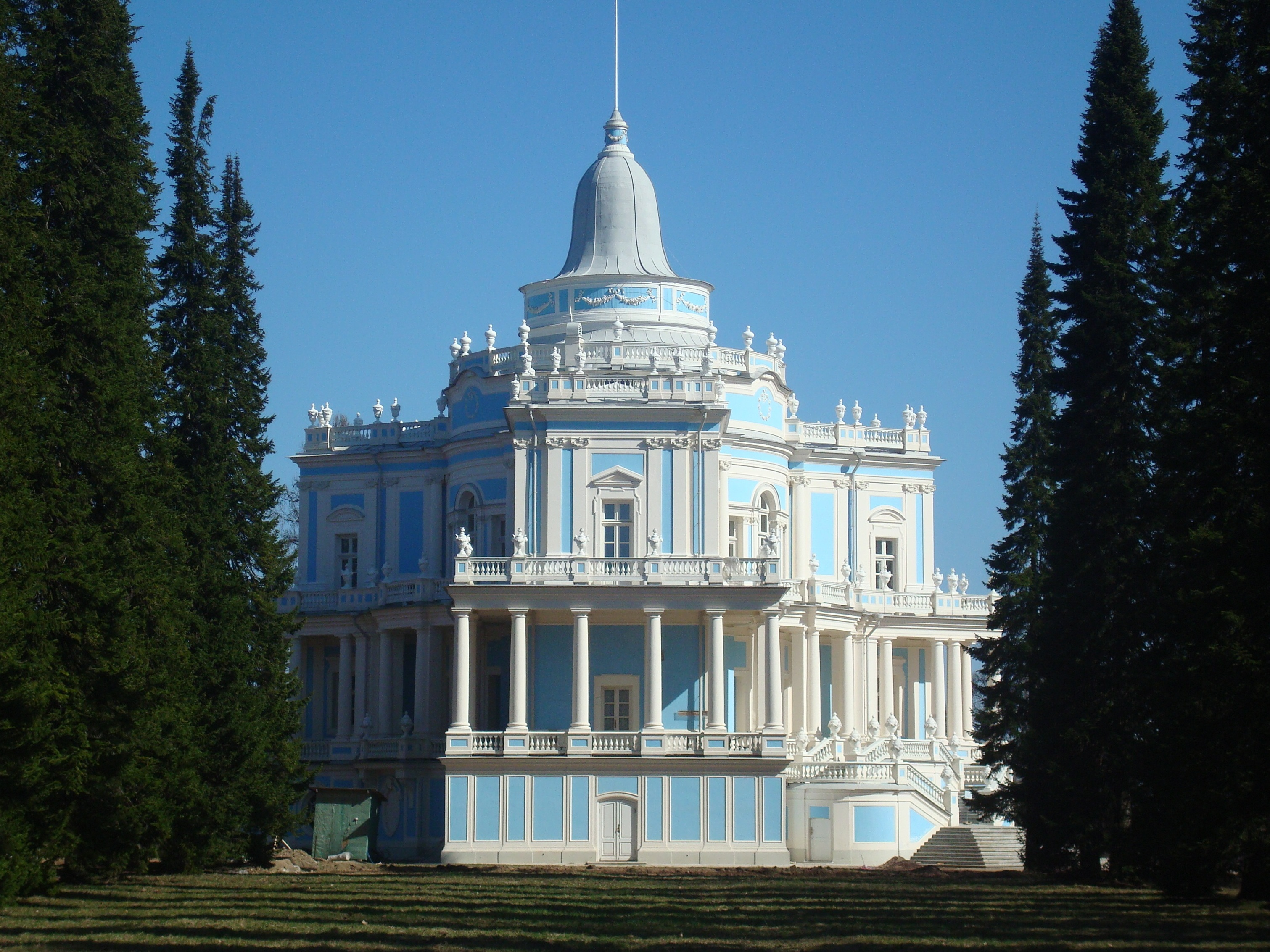 The Katalnaya gorka pavilion in Oranienbaum, Russia